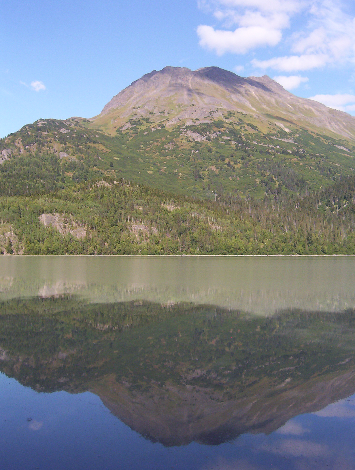 peak of the Chugach Mountains reflected in a lake